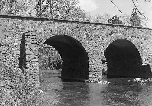 Stone arch bridge spanning Bull Run near Manassas in Prince William County, Virginia, United States.